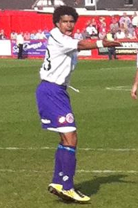 Photo taken by myself of Dean Howell during the Tamworth Vs. Crawley Town game on April 9 2011 at The Lamb Ground.